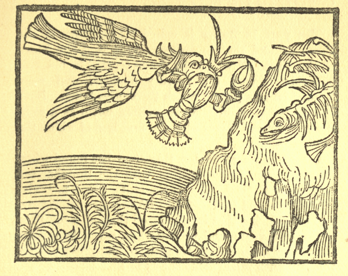 Illustration of story. The bird lures crabs and kills them. Downloaded from , page image 0073